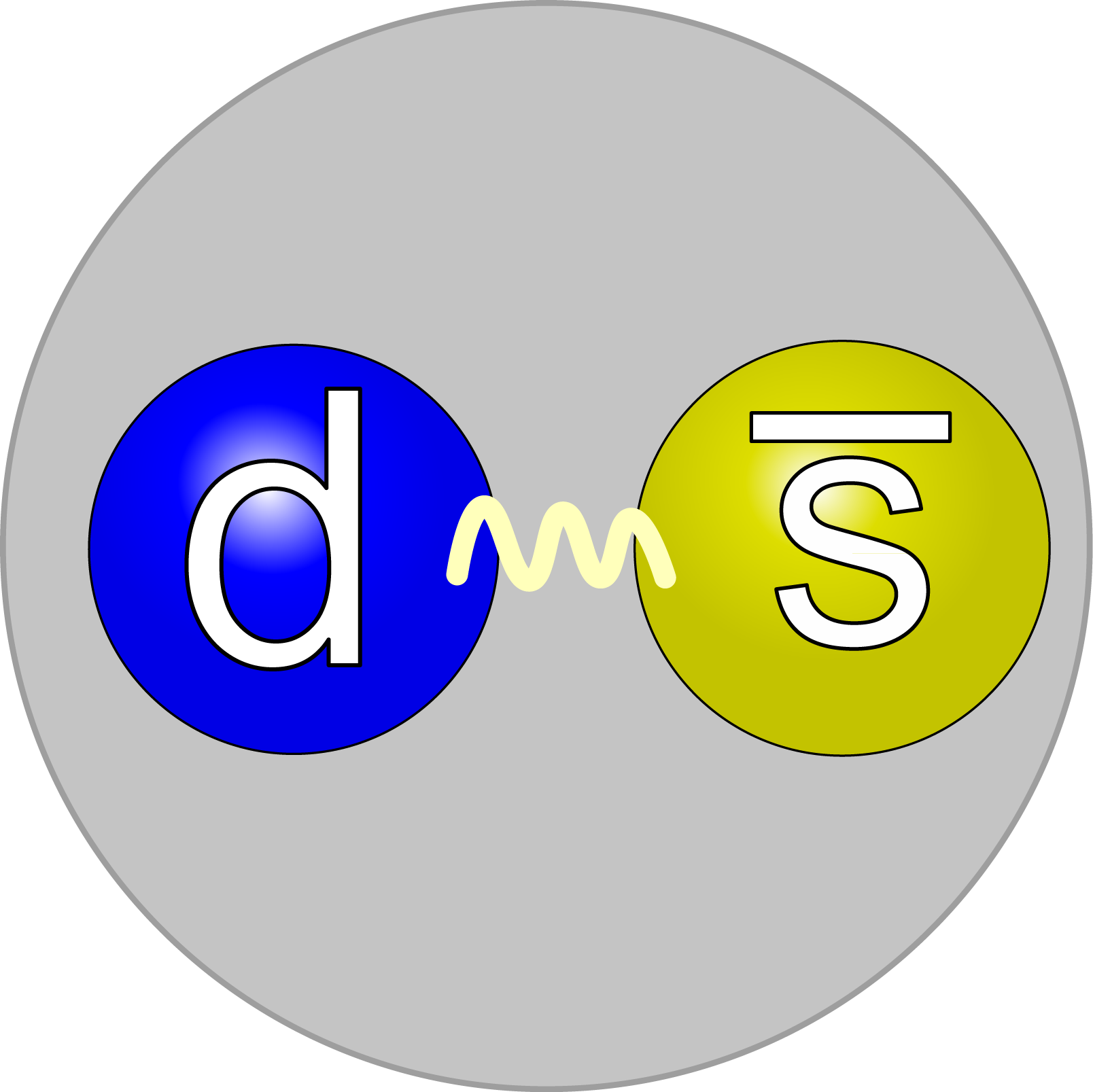 The quark structure of the neutral kaon (K⁰). The neutral kaon is comprised of a down quark and an anti-strange quark. The strong force is mediated by gluons (wavey). The strong force has three types of charges - red, green and blue. Here the down has blue and the anti-strange anti-blue (yellow).